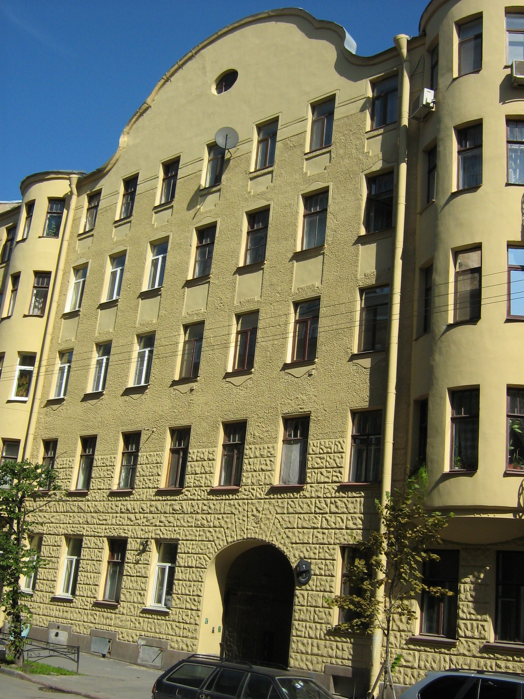 7, Gatchinskaya Street, Saint-Petersburg, Russia. Architect Pavel Rezvy, 1910.